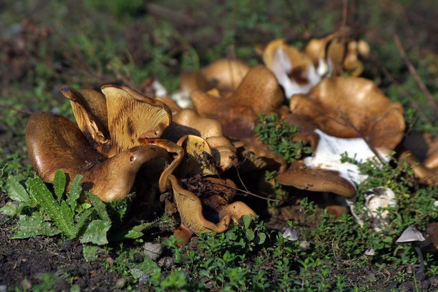 Fungi growing in Didcot railyard